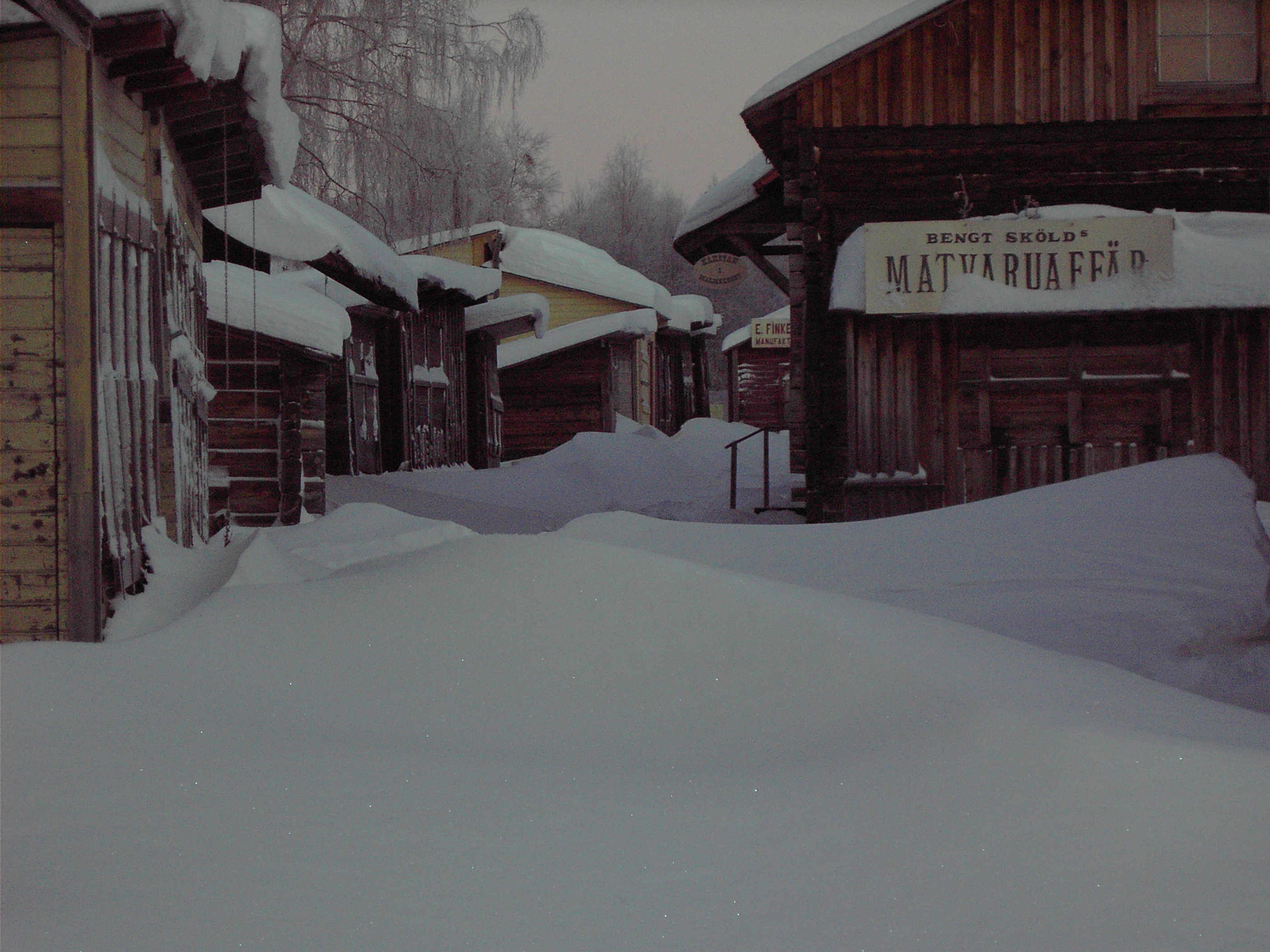 Kåkstaden, Malmberget, december 2005